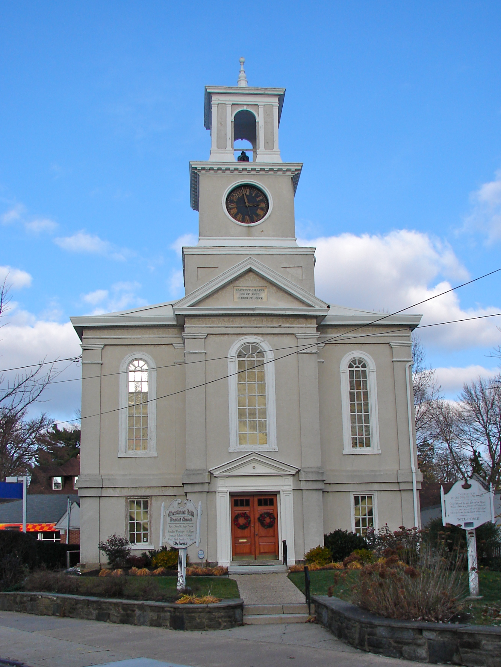 Chestnut Hill Baptist Church, 2 Bethlehem Pike, Chestnut Hill, Philadelphia, Pennsylvania. Picture taken from Germantown Ave. address equivalent to 8651 Germantown Ave. On front gable below steeple is written "BAPTIST CHAPEL BUILT 1835 REBUILT 1857" Coords 40.077242,-75.208046